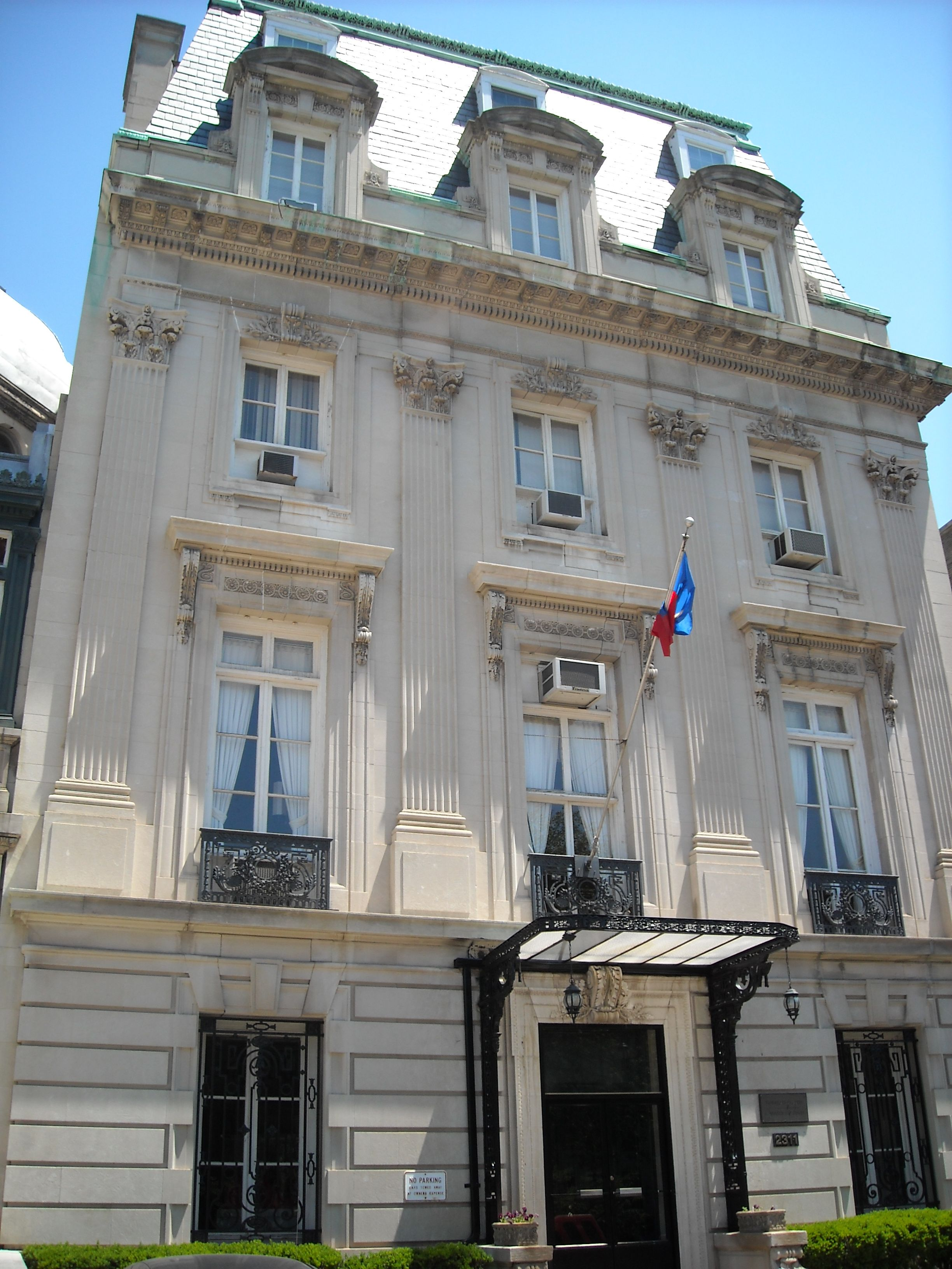 The Embassy of Haiti, located at 2311 Massachusetts Avenue, NW, in the Sheridan-Kalorama neighborhood of Washington, D.C.